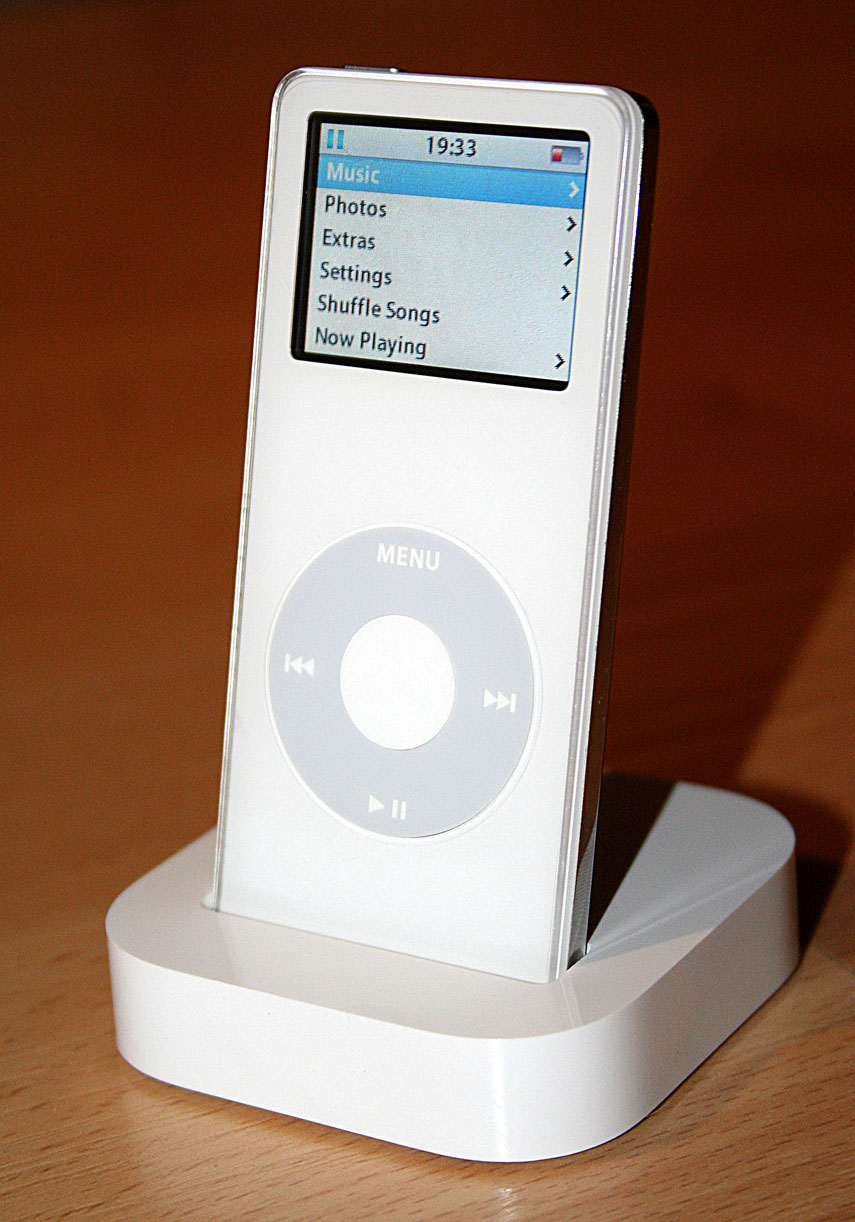 White IPod nano